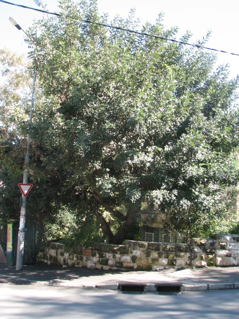 Carob tree, Beit Hakerem, Jerusalem